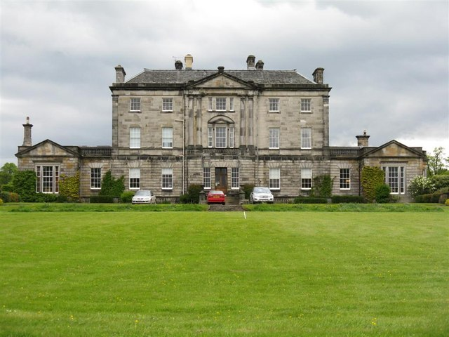 Newliston House A Robert Adam house, one of his last, completed in 1792 shortly after his death. The wings were added in 1845. It replaced an earlier house, of which there is no trace. A private home open, with the extensive grounds, on Garden Open Days.